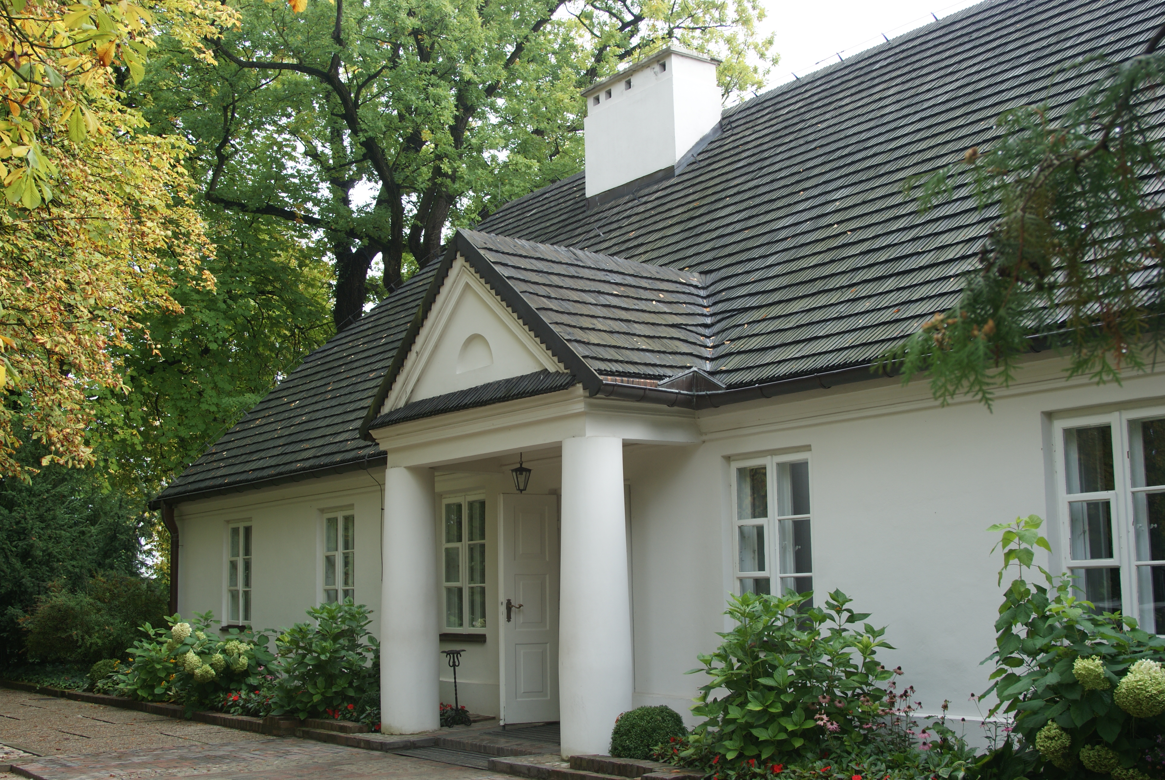 Manor house in Żelazowa WolaEsperanto: Domo de Ŝopeno en Żelazowa Wola